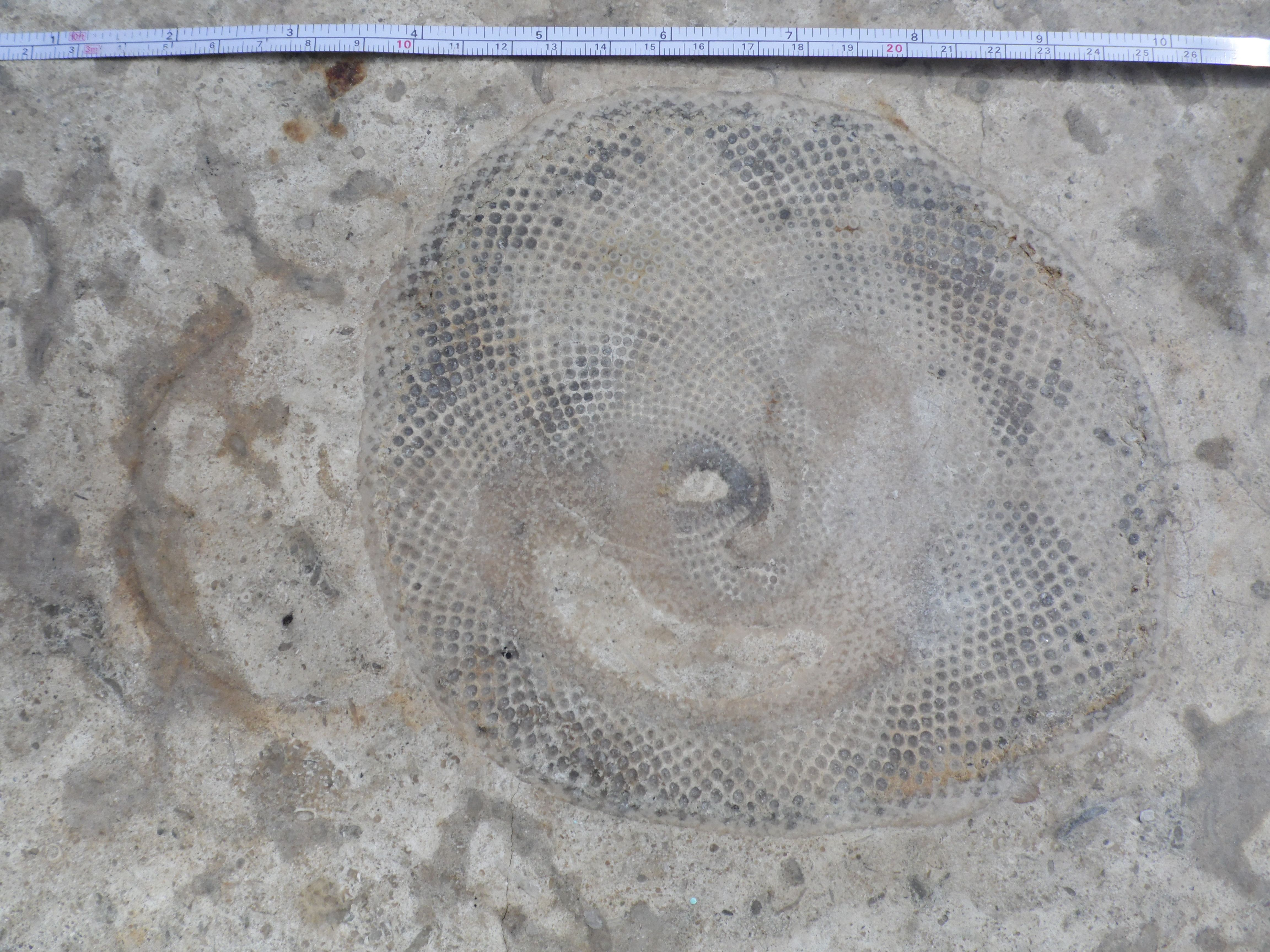 Tyndal Stone with fossil